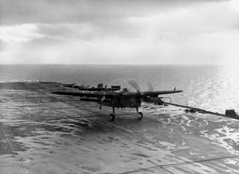 The Fairey Barracuda torpedo aircraft taking off from HMS Illustrious on the Clyde. The Fairey Barracuda torpedo bomber is a combination of dive and torpedo bomber, and is the newest to come into service with the Fleet Air Arm.